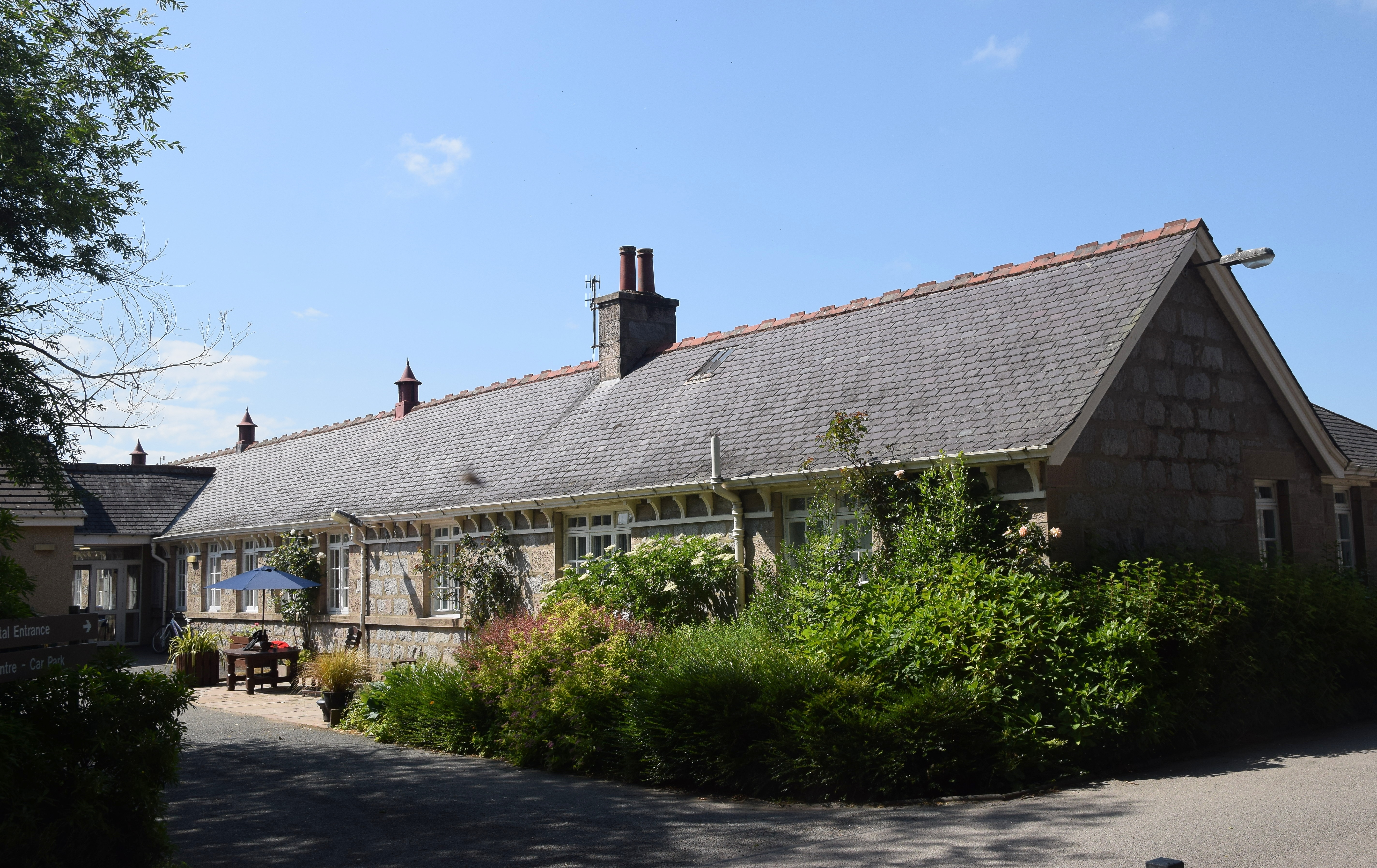 Insch cottage hospital